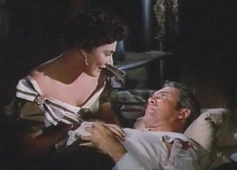 Cropped screenshot of Ruth Roman and James Stewart from the film The Far Country